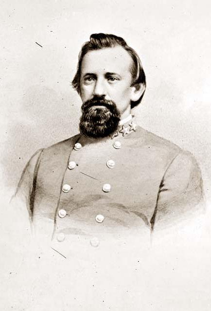 photo of Alfred J. Vaughan, Jr. (1830-1889)